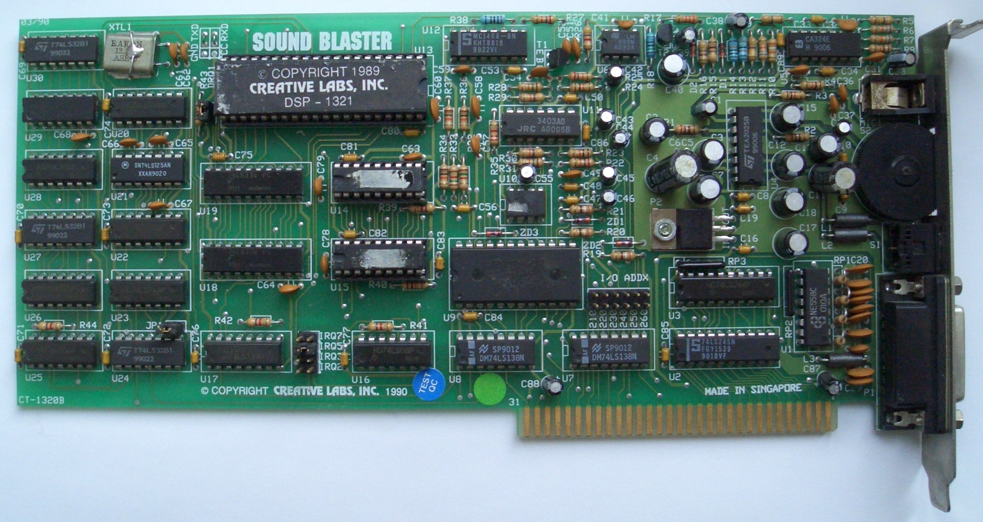 Soundblaster 1.0 (CT-1320B) from 1989/1990 Note: the silk print seen on the left-bottom said "CT-1320B", and (C/MS: Creative Music System) chips on sockets are found on U14, U15, thus it may be Sound Blaster 1.0